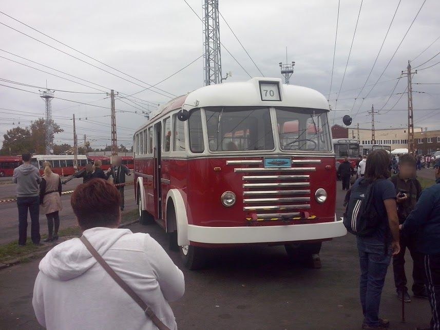 Ikarus 60T heritage trolley bus, Kőbánya trolleybus depot open day, Budapest